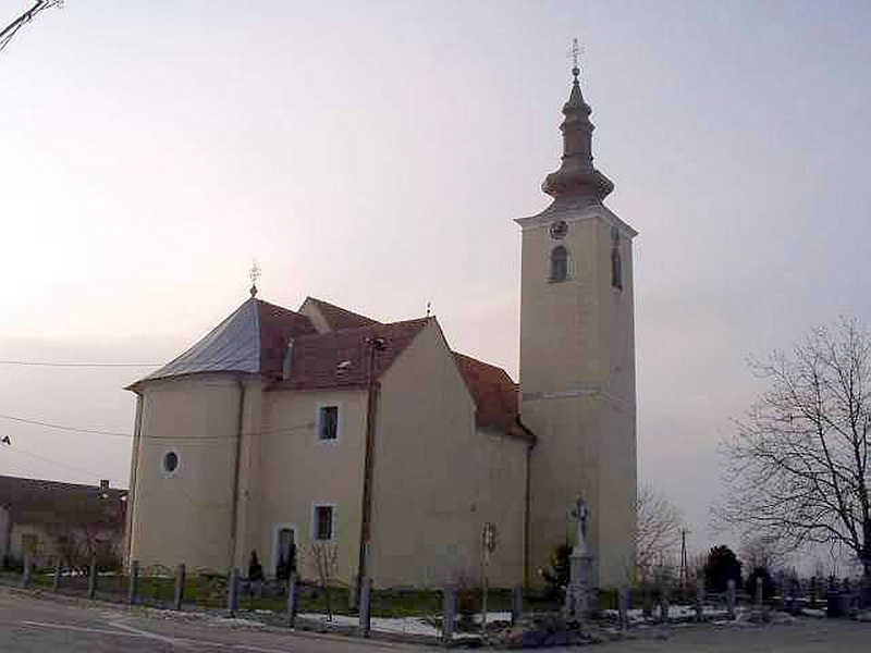 Cirkvena - Church